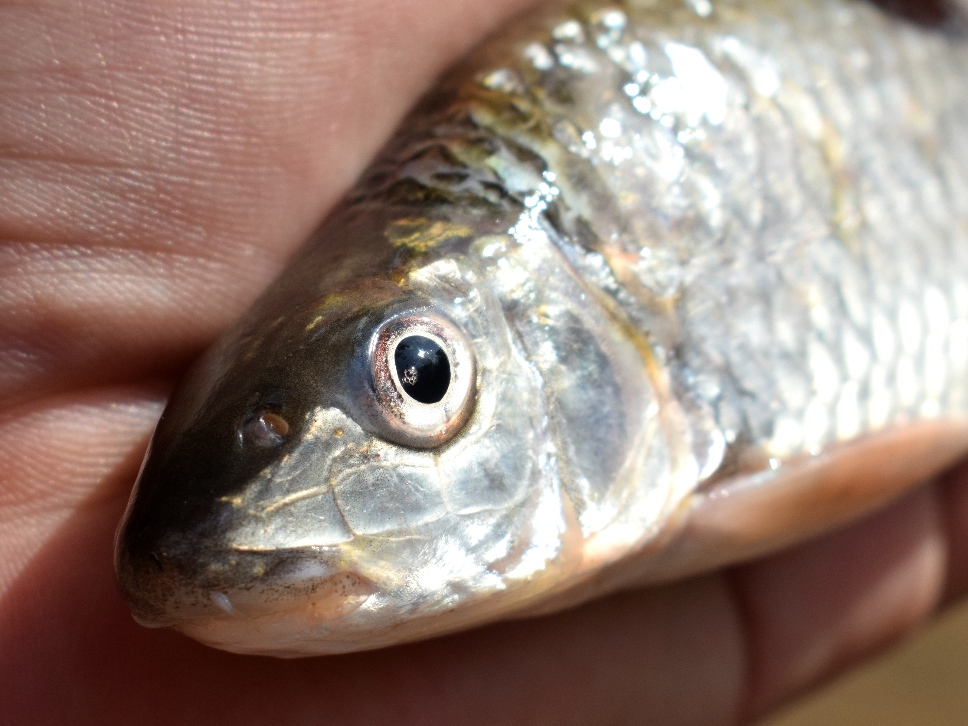 Sucker barb Barbichthys laevis; 148 mm SL; head close up, note the enlarged sub-orbital bones. From North Musi Rawas (Muratara), South Sumatra, Indonesia.